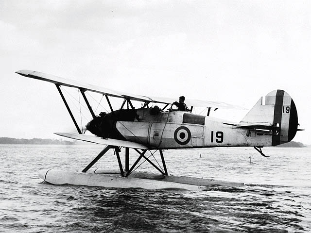 Armstrong Whitworth Atlas Mk.1 undergoing float trials at Rockliffe